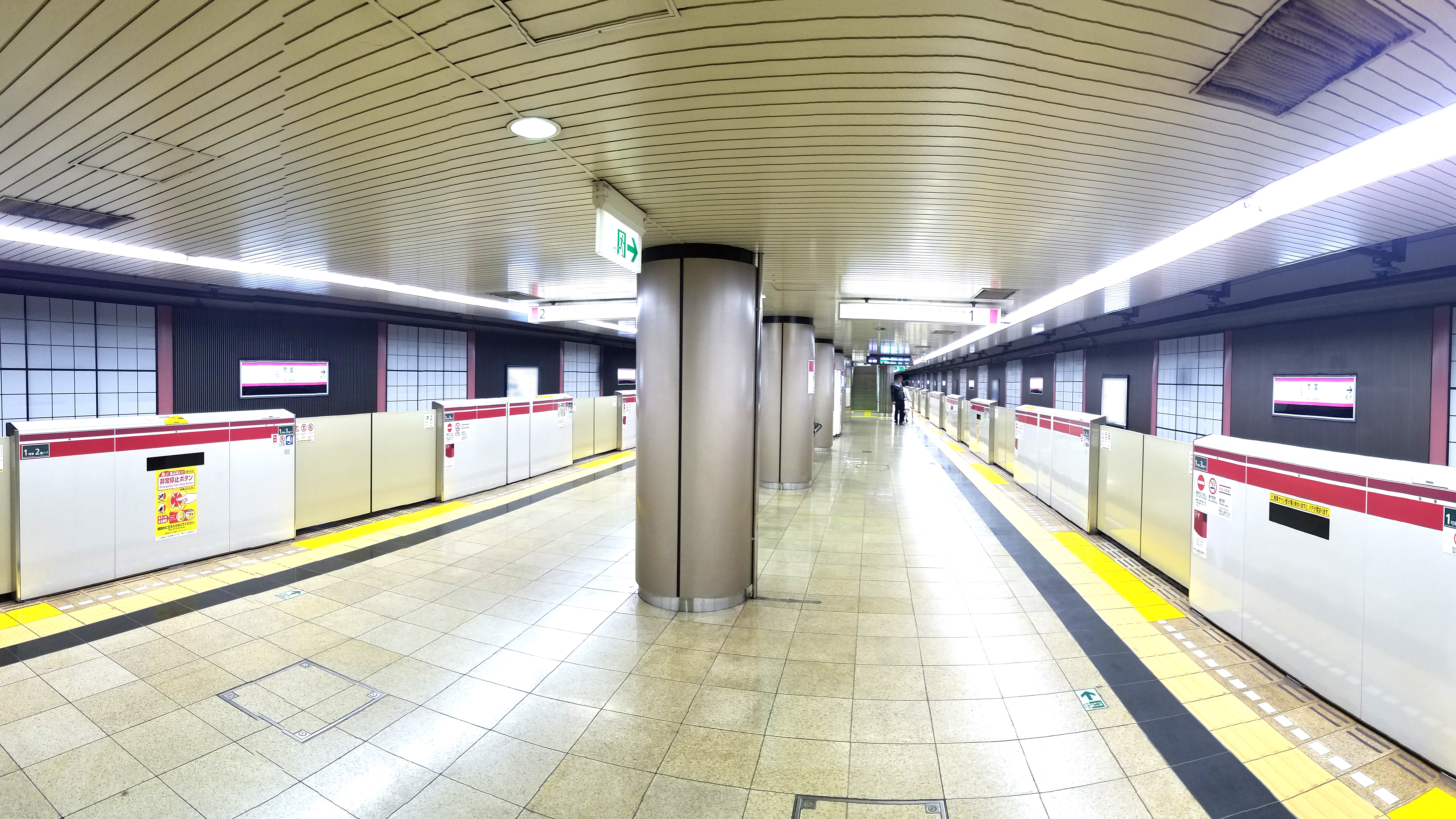 The platform at Ryōgoku Station on the Toei Ōedo Line in Sumida city, Tokyo, Japan